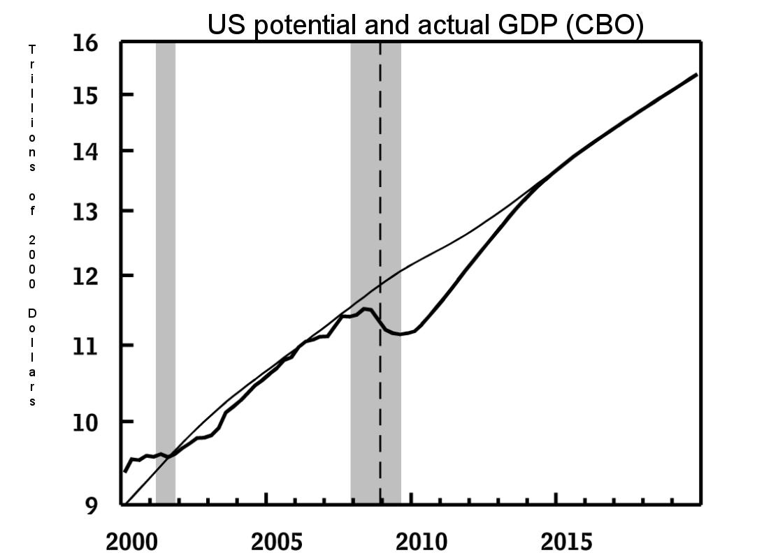 Chart of the estimated and forecast potential and actual GDP from the CBO